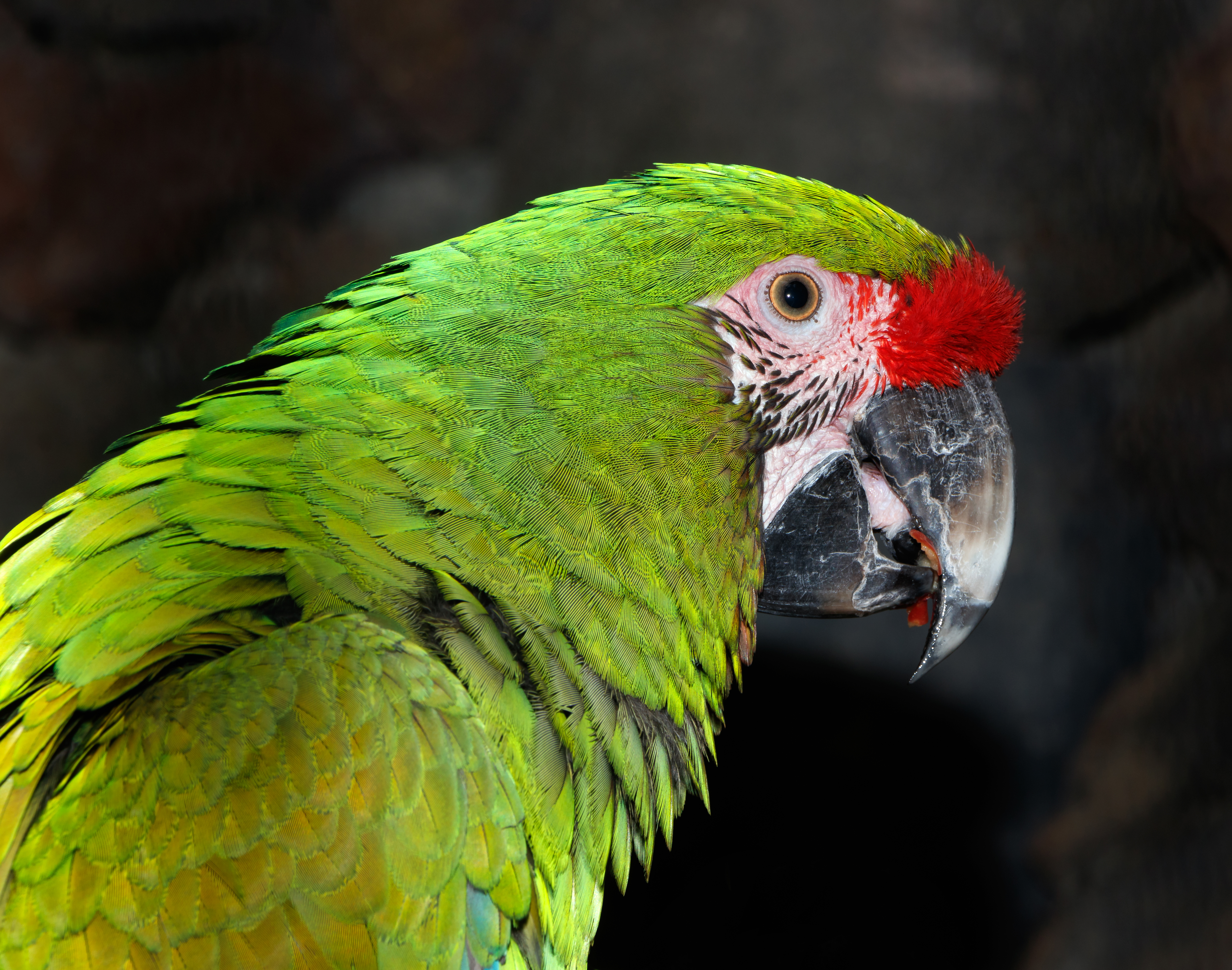 Ara militaris (Linnaeus, 1766), Military macaw; Maroparque, Breña Alta, La Palma, Canary Islands, Spain.